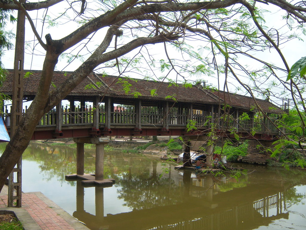 Tile bridge in Phat Diem town (Ninh Binh)